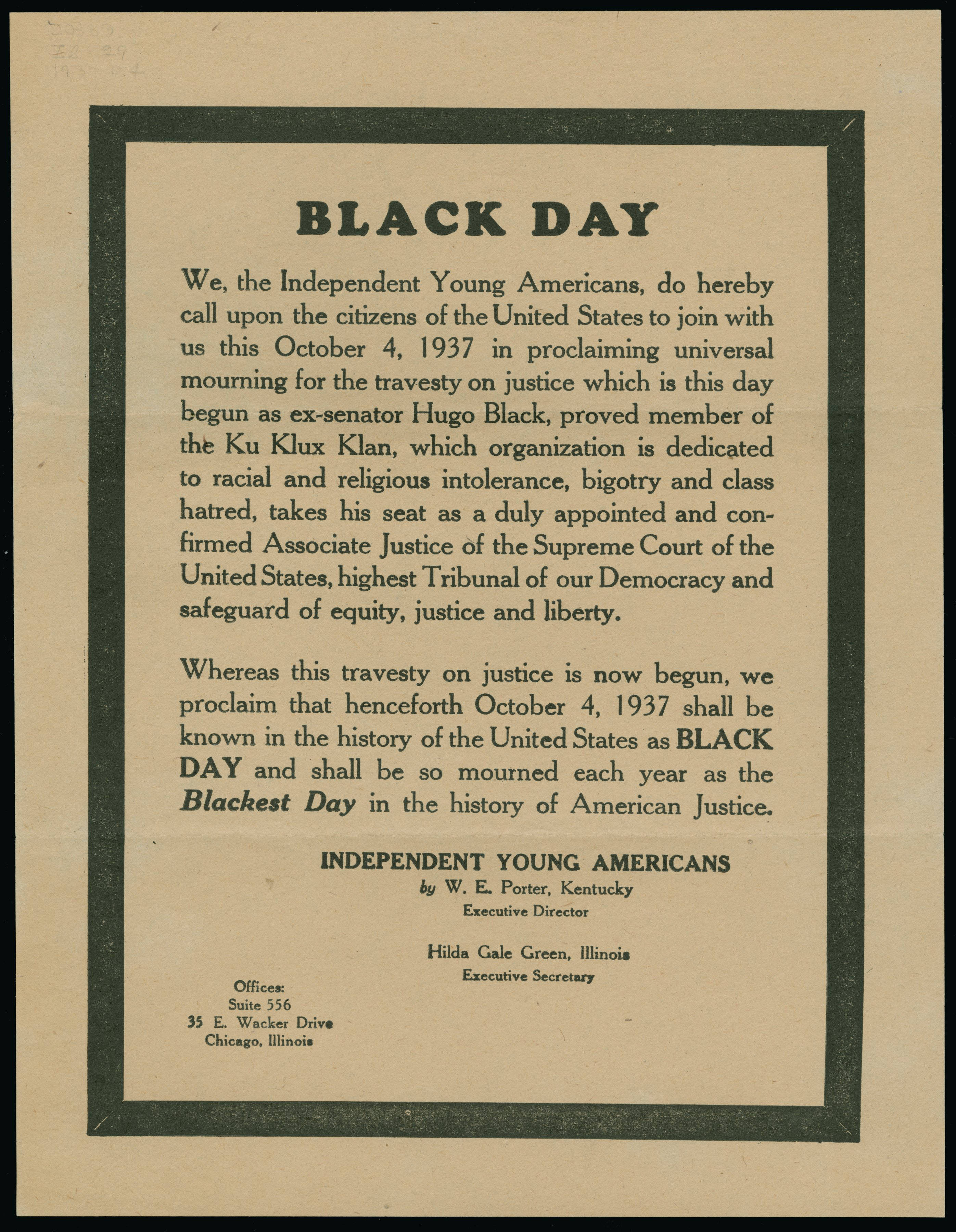 1 broadside; 28 x 22 cm